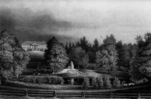 Durbe manor house near Tukums, Latvia.